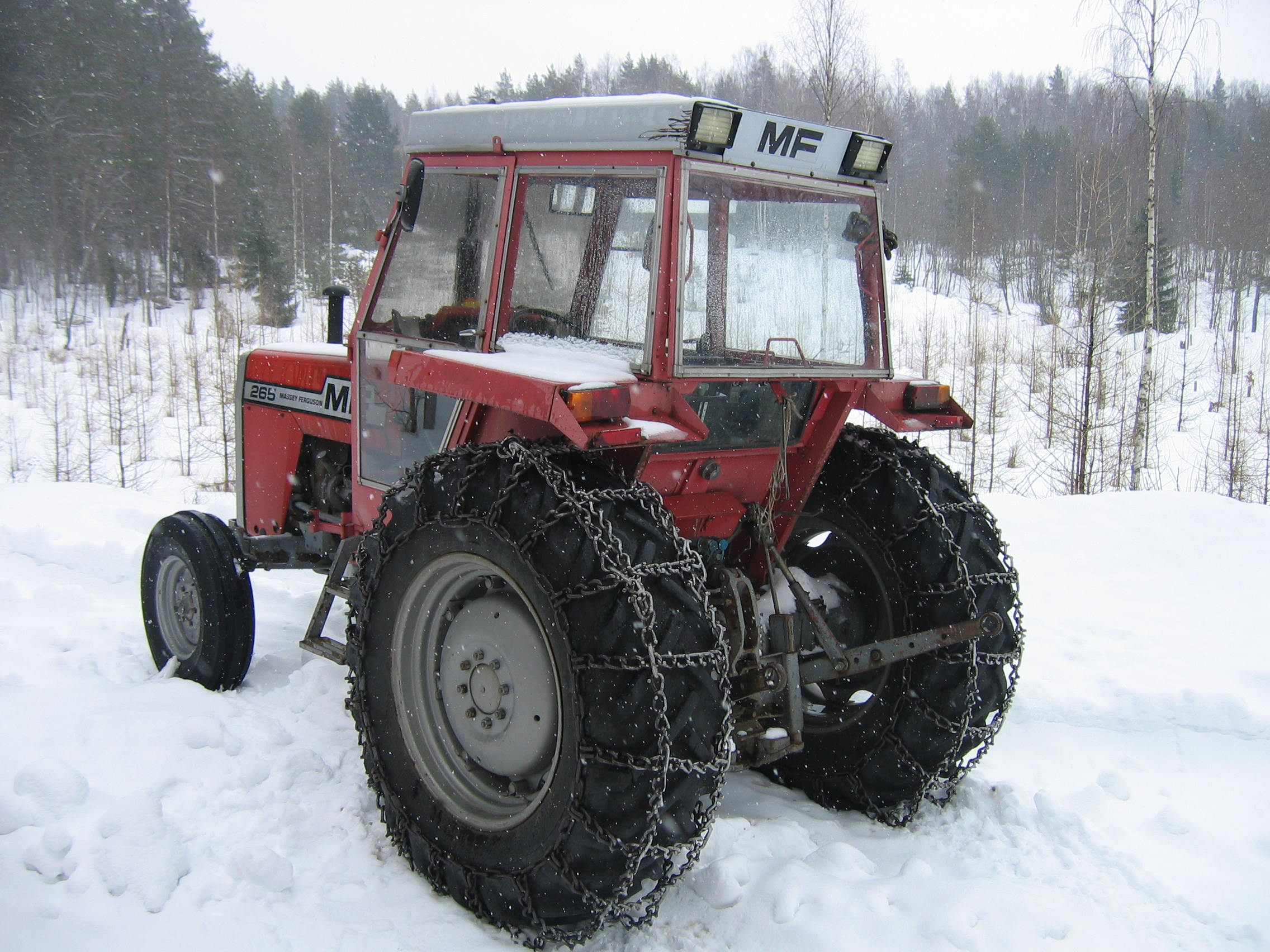 Massey-Ferguson 265 farming tractor in a Finnish countryside surrounding.